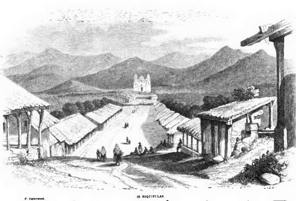 Plate 33 - ESQUIPULAS. See link to Book.